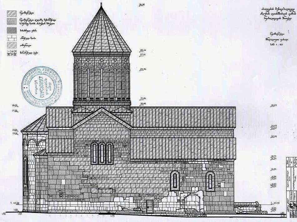 A restoration project of the medieval Atsquri cathedral in Georgia. The image is part of the official government document approved and sealed in 2015. The church being a restored version of the medieval building and the restoration plan being scanned from the government document, it is presumed that the image is in public domain.